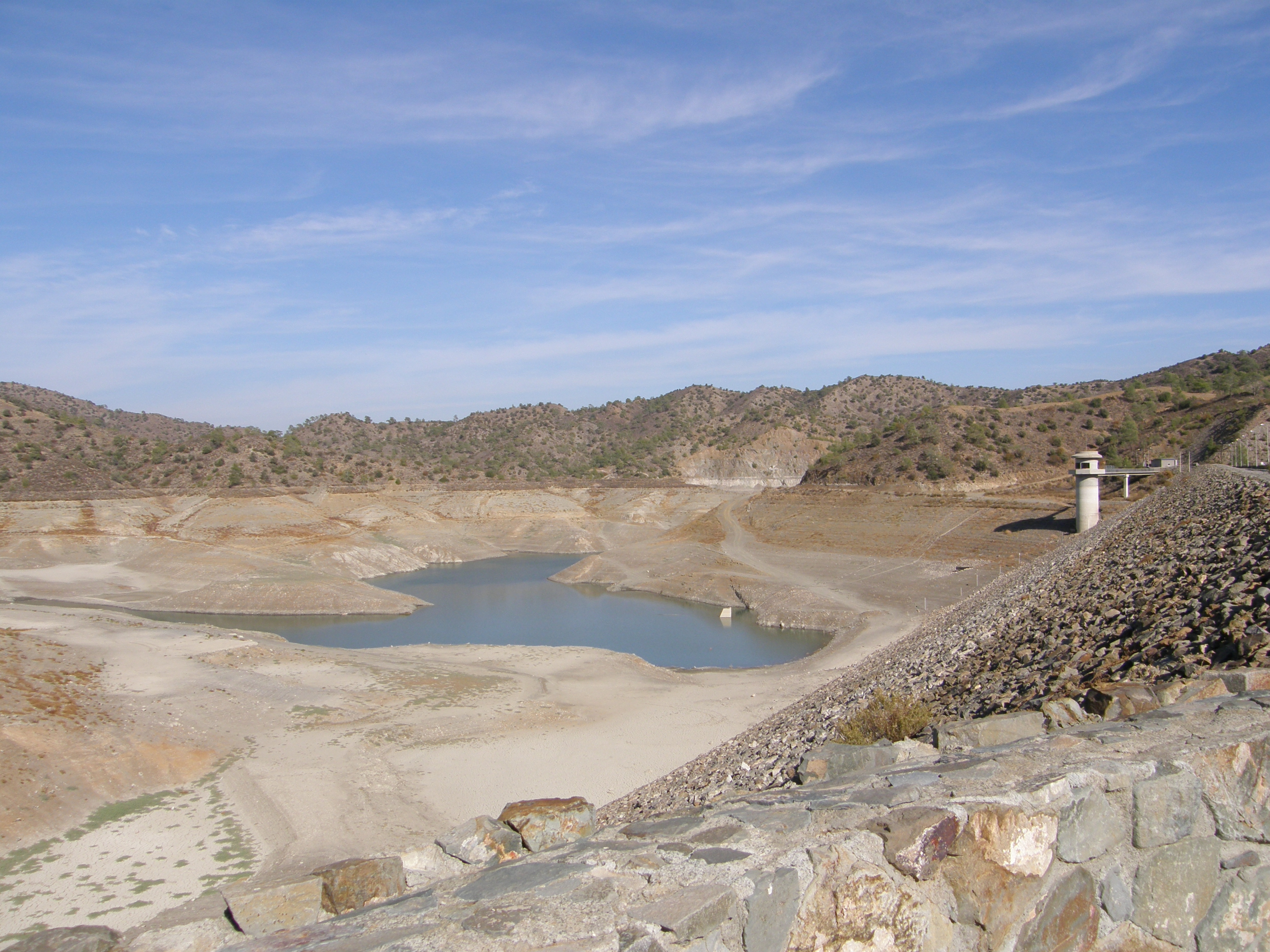 Dhipotamos dam, Cyprus (water level less than 1% of normal level)